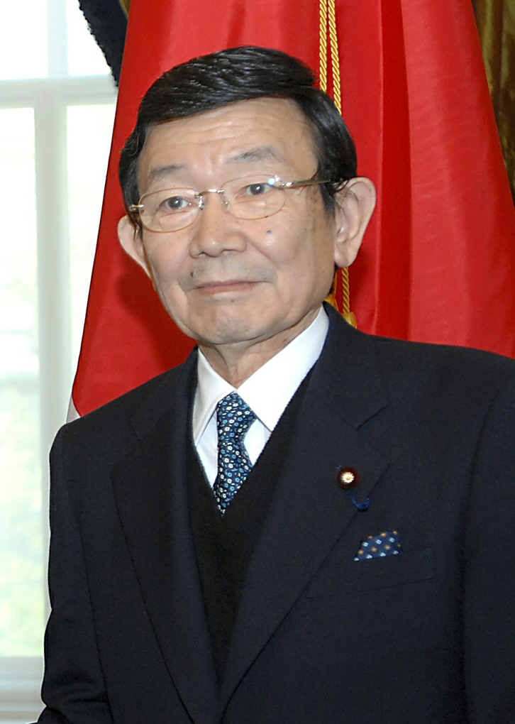 Kaoru Yosano, Minister of Finance, met Timothy Geithner, Secretary of the Treasury, at the Department of the Treasury in Washington, D.C. on April 24, 2009.